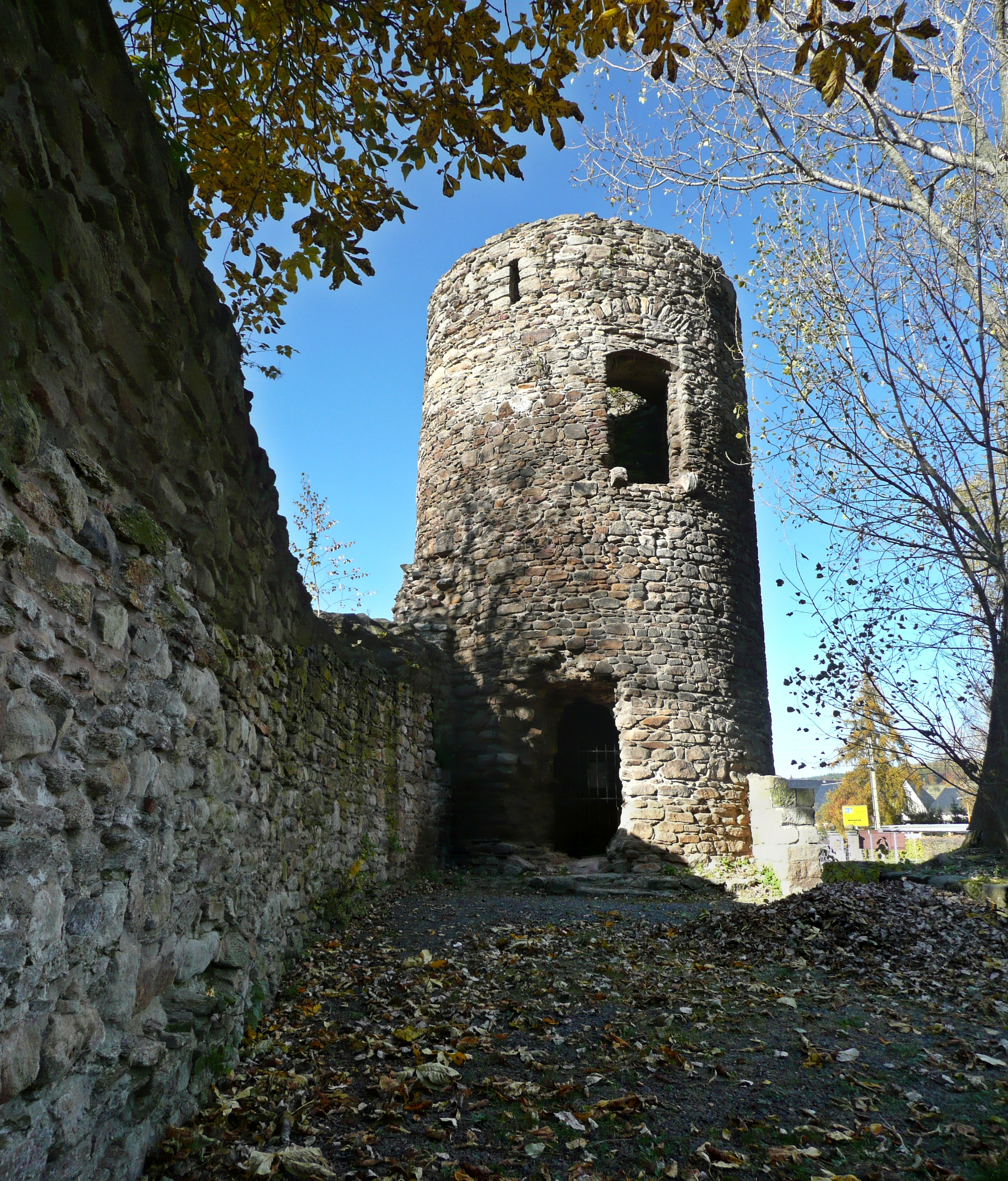 This image shows the former water castle in Ruppendorf in Saxony.